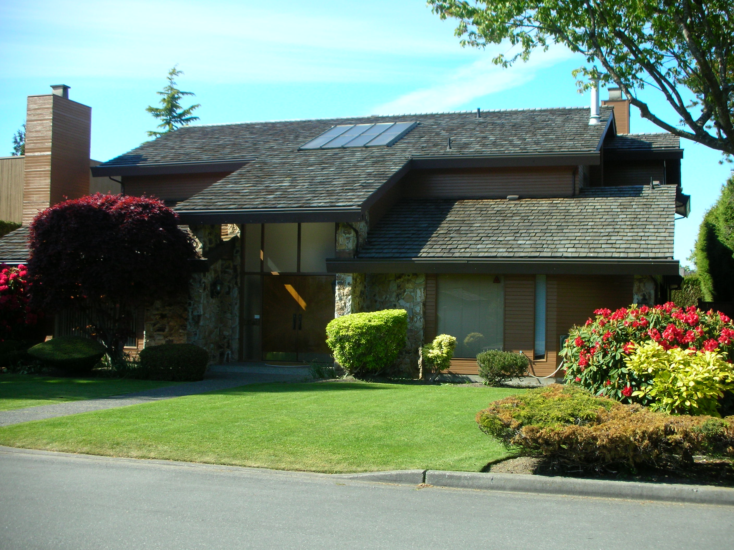 1970's westcoast contemporary home in Richmond, BC.